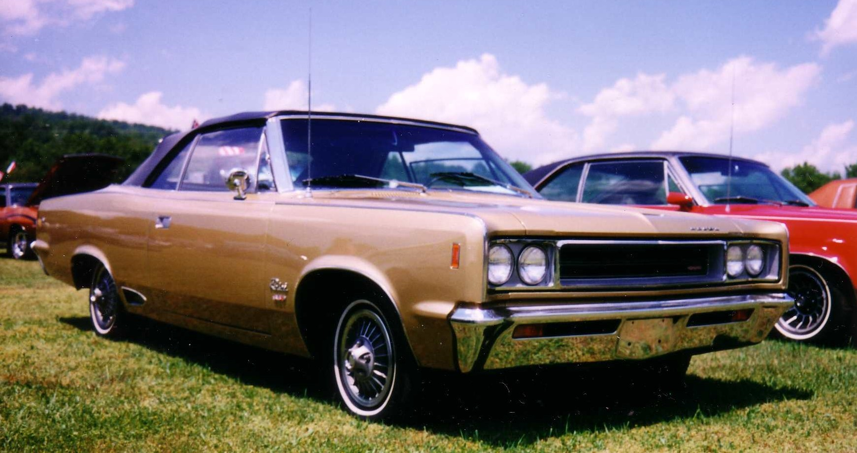 1968 Rebel SST convertible by American Motors Corporation (AMC). Photographed at automobile show at Lou Brown's "Nashville" in Orbisonia, PA.